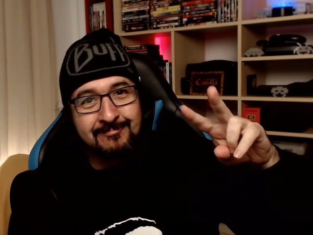 Aitor Millán Fernández (Málaga, 15 November 1978) is a Spanish MC, record producer and youtuber, better known by his stage name Jefe de la M, as well as Bobby Lo, in his role as singer and music producer, or as Buck Fernandez, in his role as youtuber.